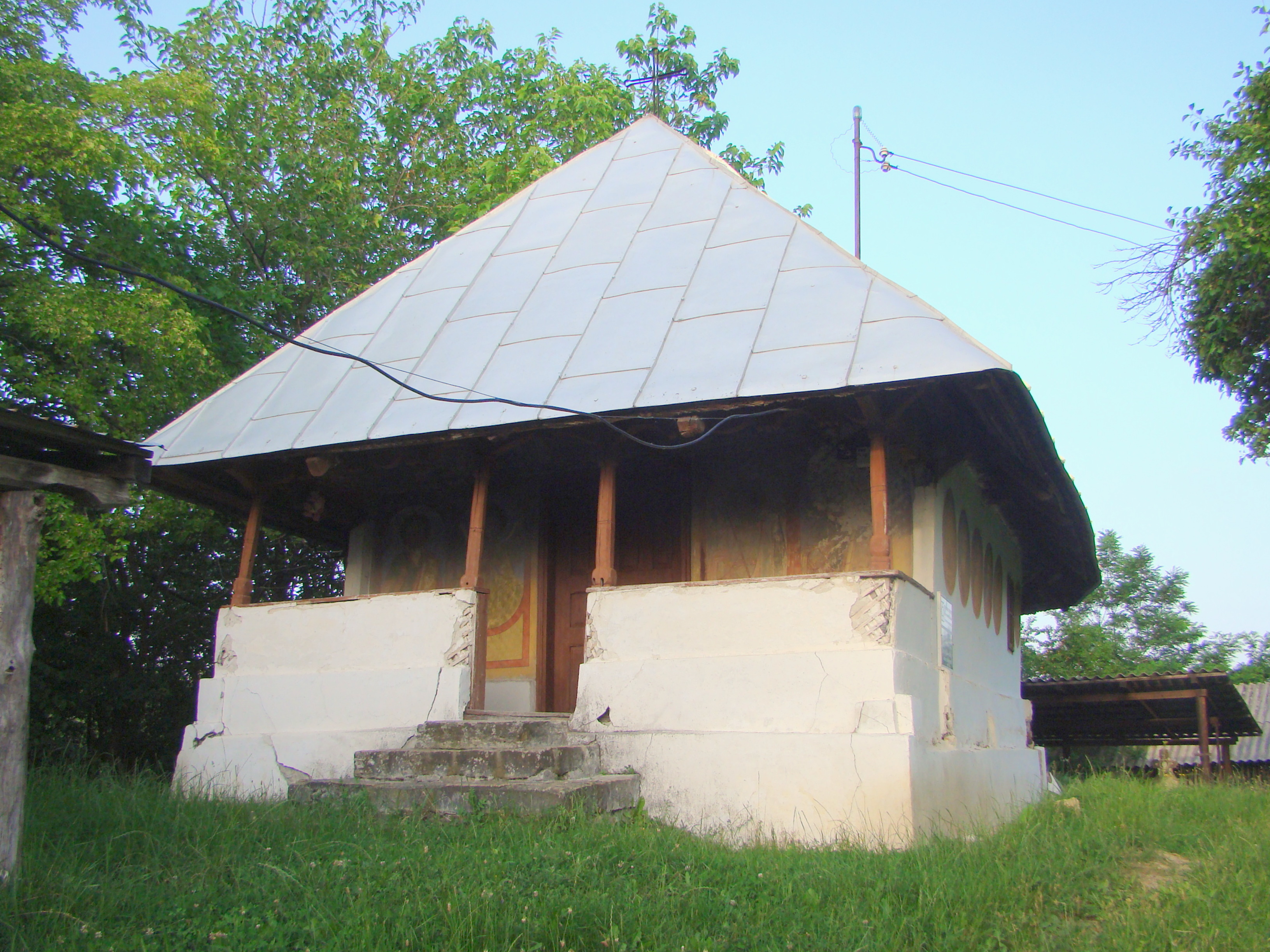 Wooden church in Seciurile, Gorj county, Romania